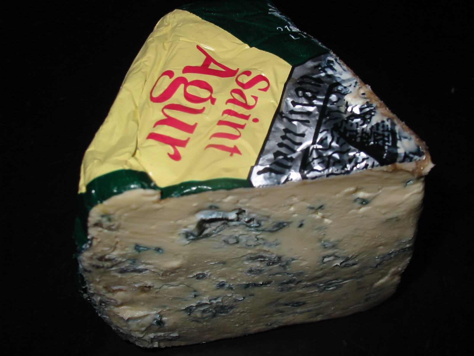 Picture of Saint Agur cheese